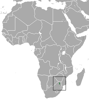 Gunning's Golden Mole (Neamblysomus gunningi) range